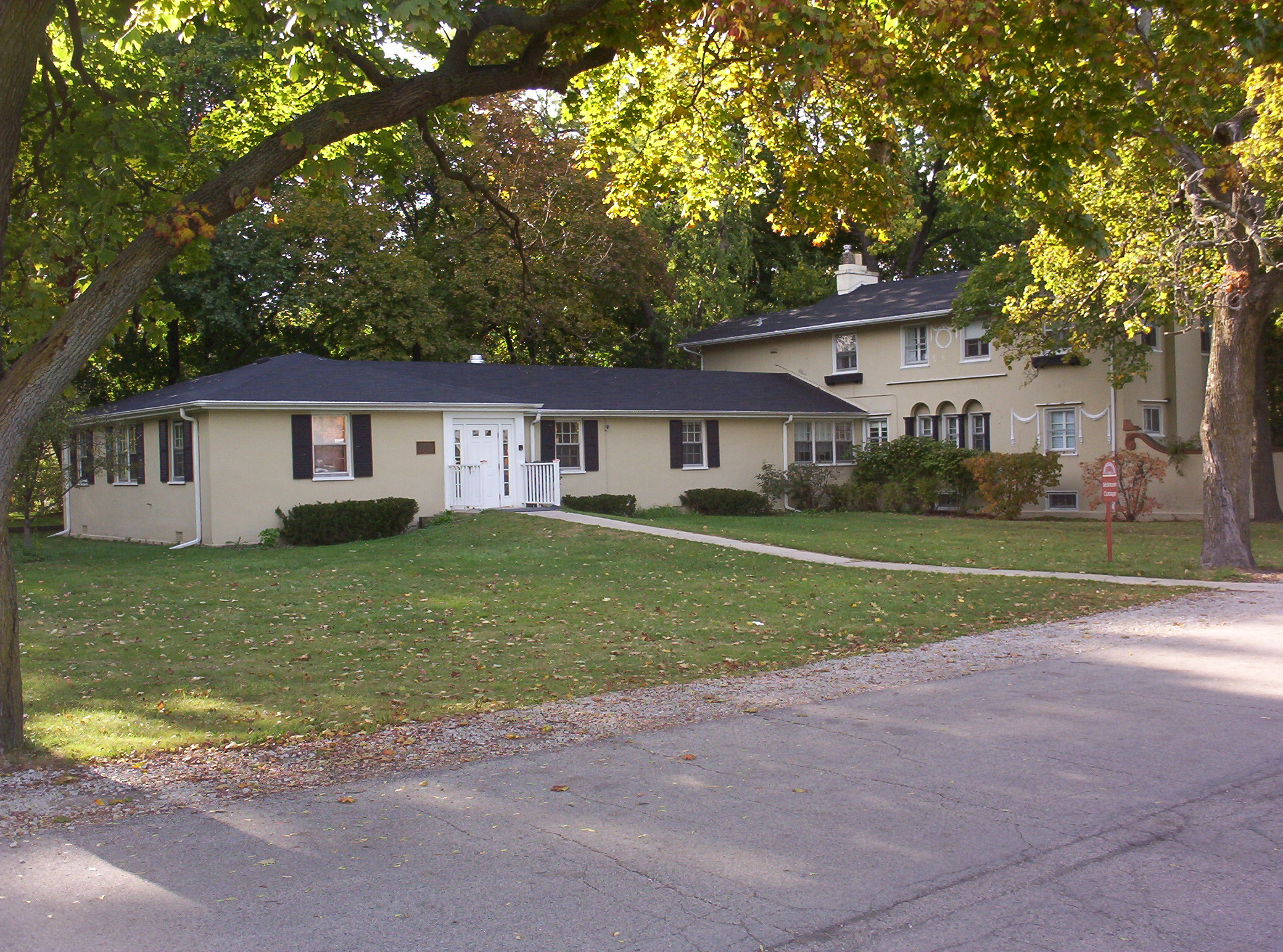 Photograph of McIntosh Cottage at Lake Forest Academy. I took this photo myself and hereby release all rights. Dylan 16:49, 18 December 2005 (UTC)